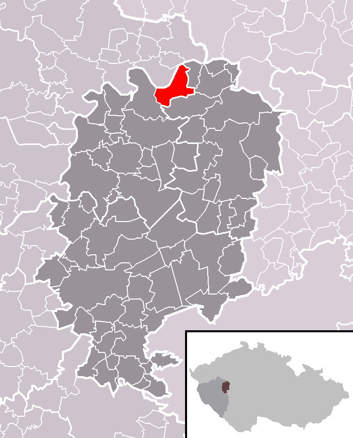 Location of Chlum municipality within Rokycany District and within identical administrative area of Rokycany as a Municipality with Extended Competence.